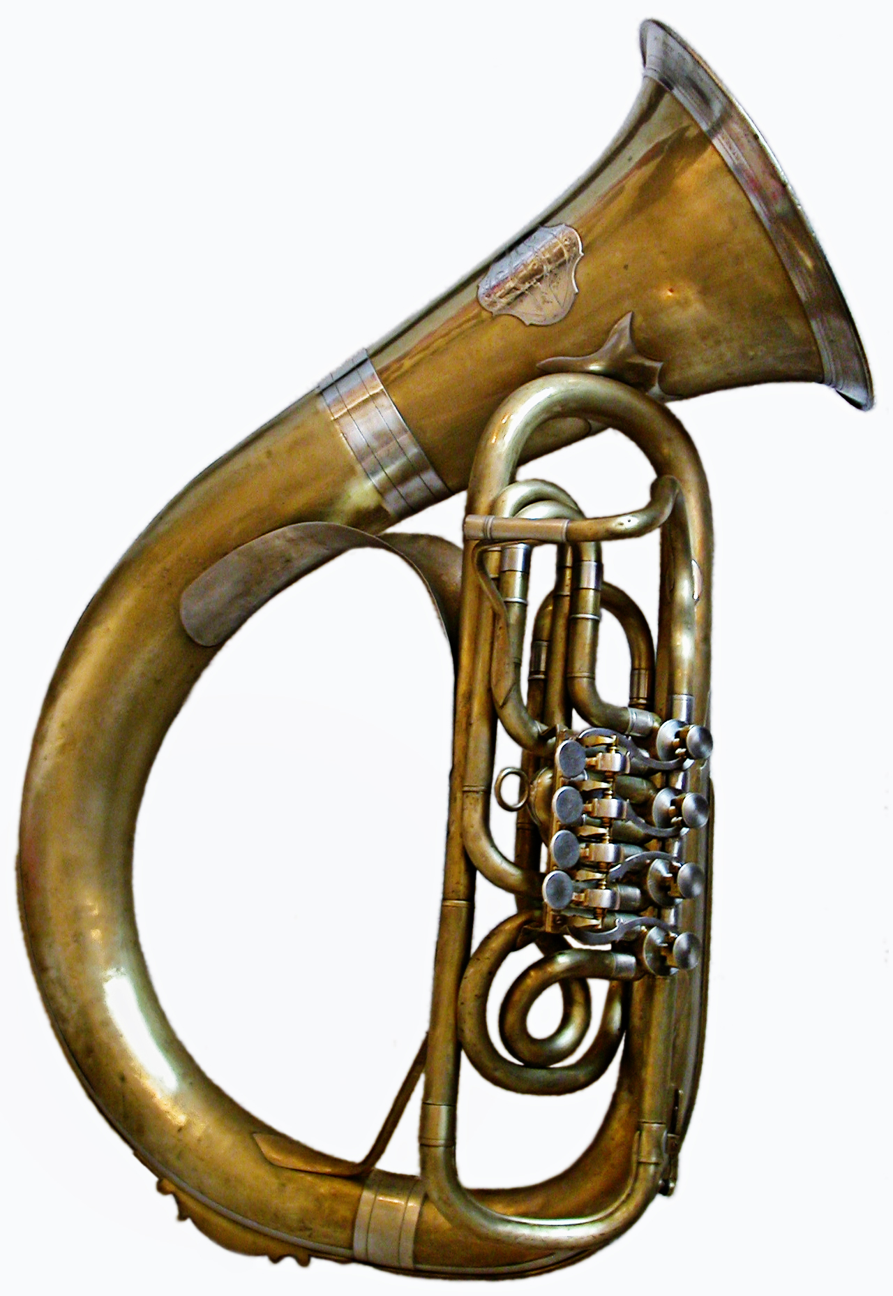 This is an old Helicon, a brass instrument in the tuba family. This piece was manufactured in Graz, Styria, Austria.